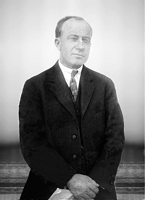 Kentucky Congressman David H. Kincheloe